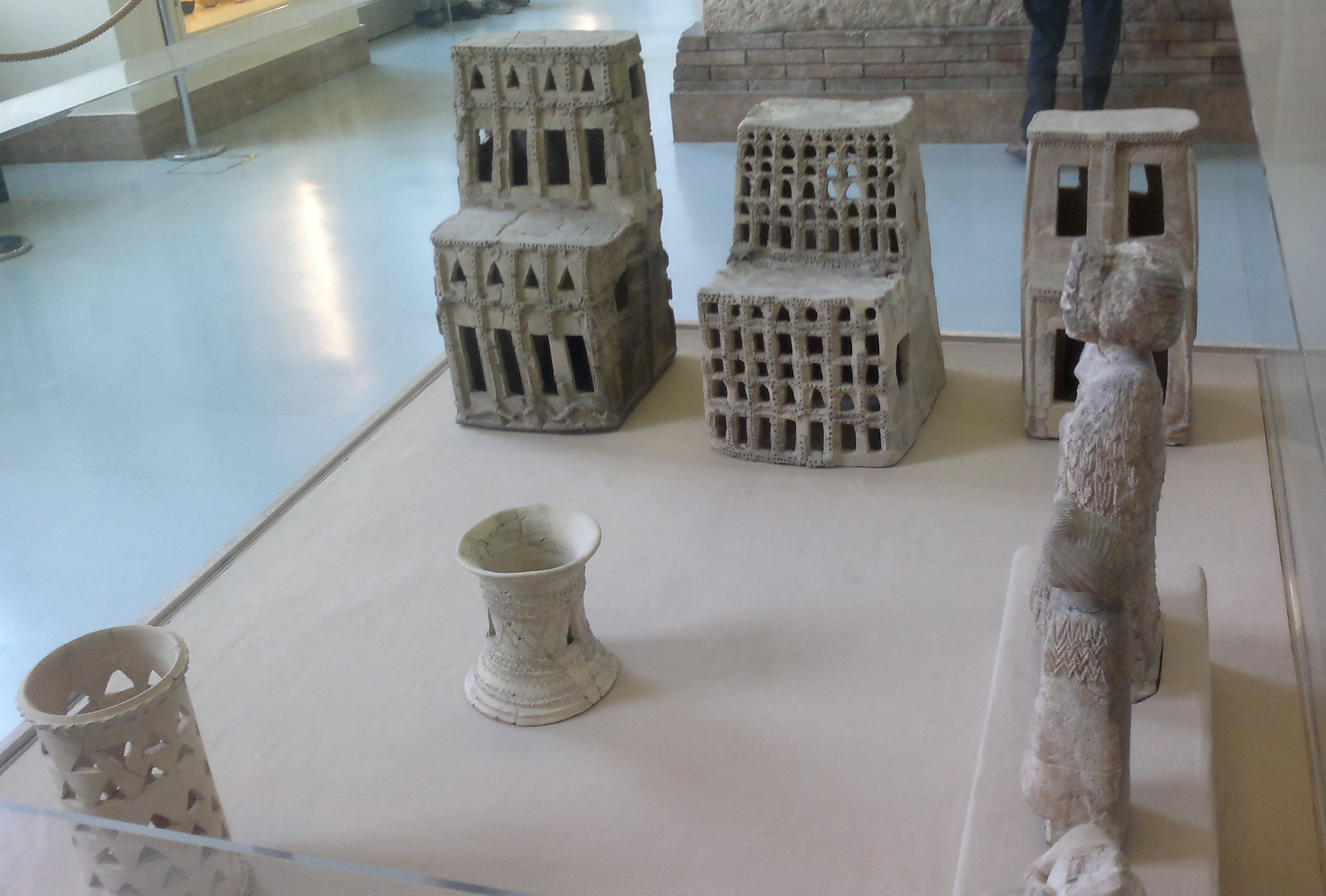 Installation of the archaic Ishtar Temple with temple inventory (censers, stepped altars) and statuettes of supplicants on wall benches. Ashur,c. 2400 BC. Ceramic and alabaster. Pergamon Museum, Berlin